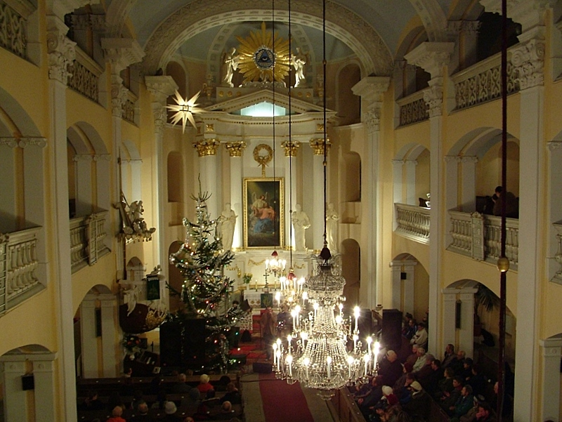 Evangelical church of Martin Luther in Bielsko-Biała, Poland.